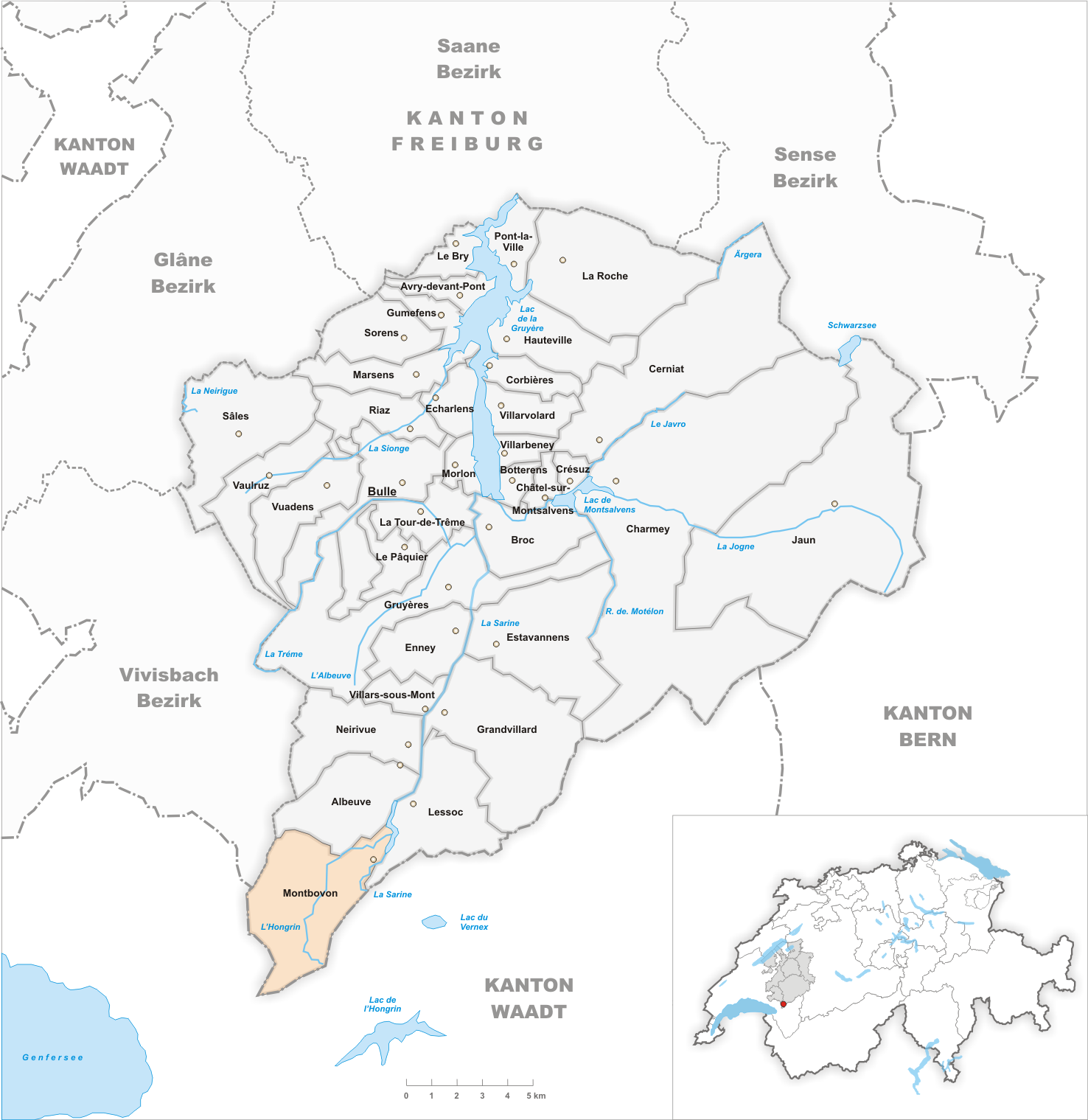 Municipality Montbovon Artist: Tschubby